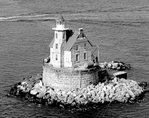 RACE ROCK LIGHT ;public domain. From a U.S. governmental web site: ( USCG web site)